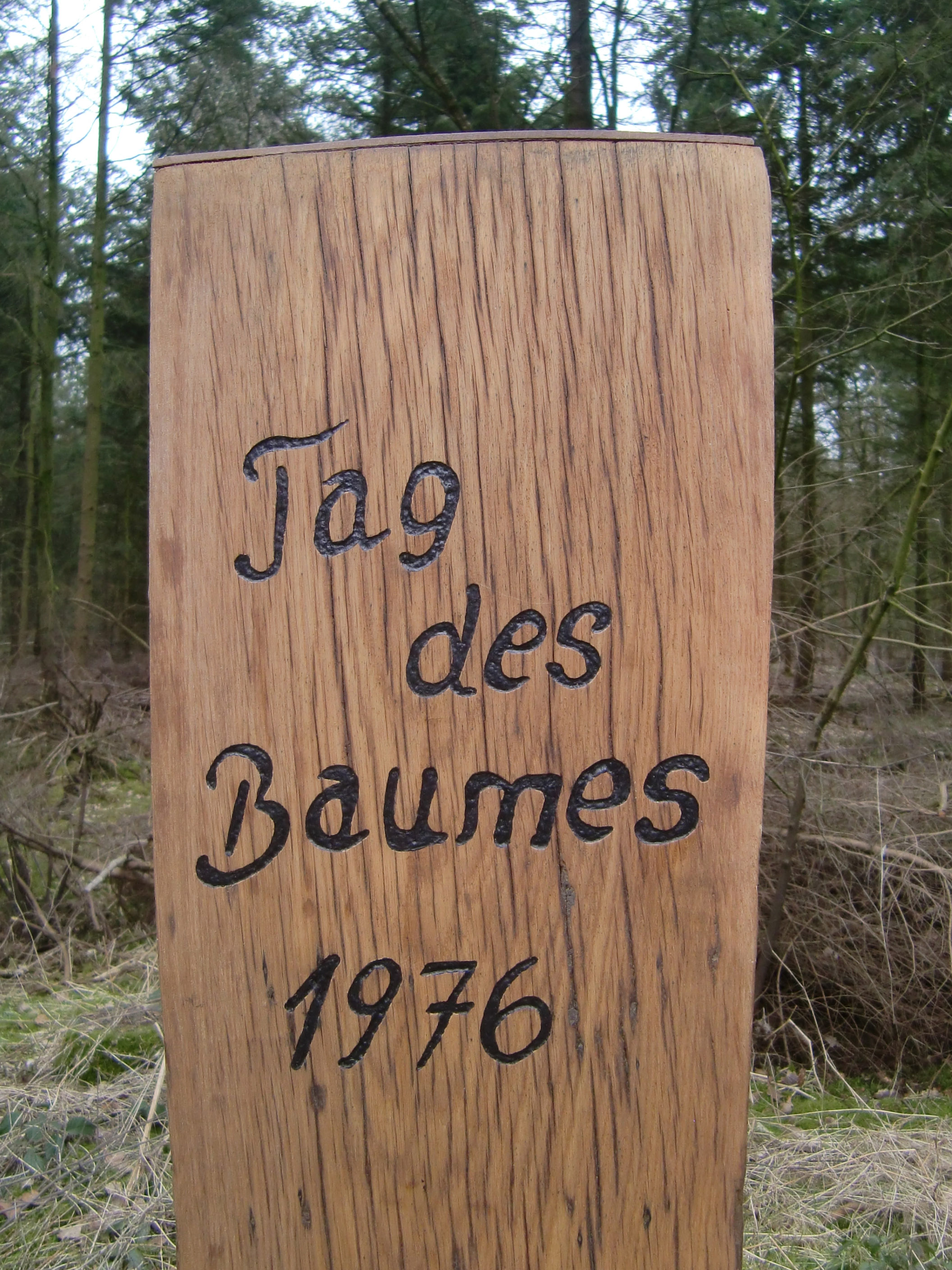 Memory in the Bürsteler Fuhrenkamp in Ganderkesee, 4 years after the passage of the Cyclone Quimburga